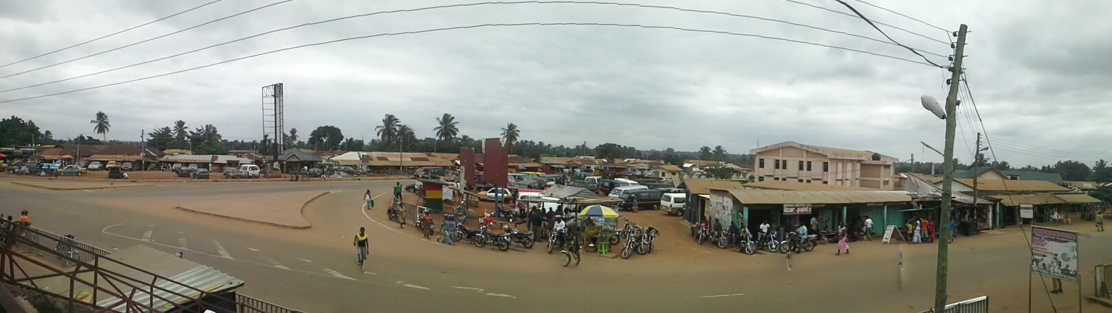 Panoramic view of Akatsi roads leading to Aflao and Dzodze